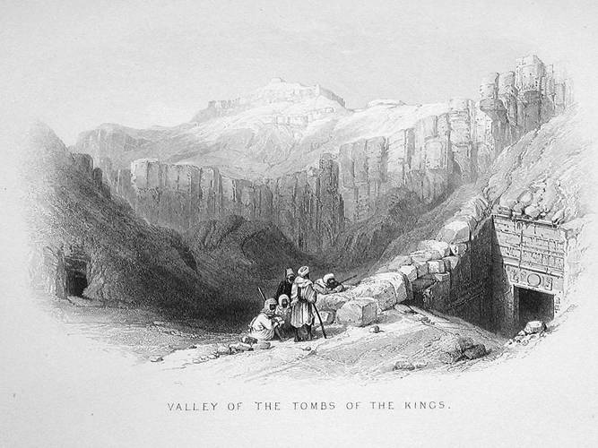 Image taken from "The Nile Boat or Glimpses of the Land of Egypt", by William Henry Bartlett (1809-1854) published 1862. From: The Nile Boat or Glimpses of the Land of Egypt